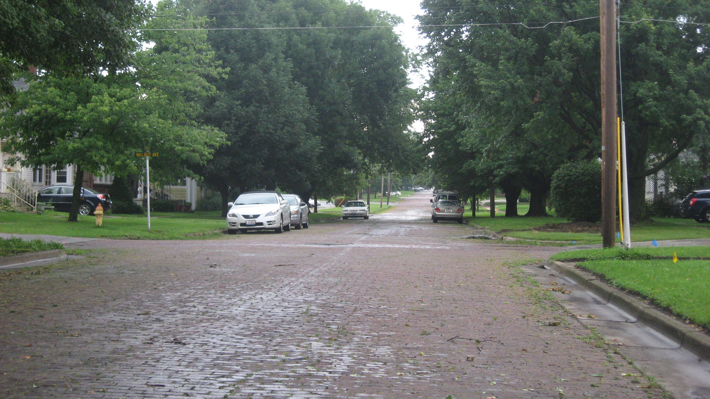 Looking northward along Fifteenth Street at the Walnut Avenue intersection in Mattoon, Illinois, United States. The brick pavement has been listed on the National Register of Historic Places.